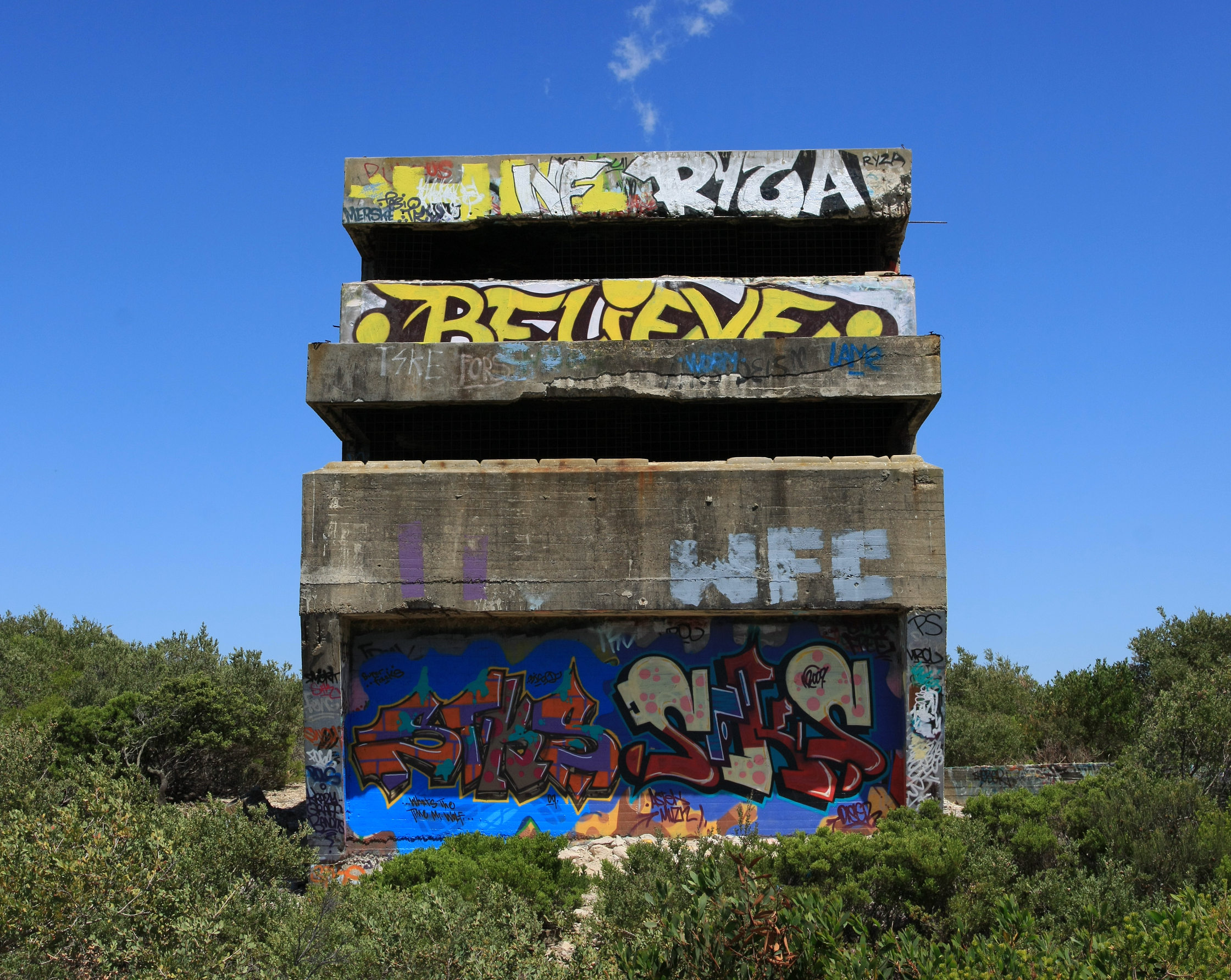 Observation tower at the Malabar battery in Sydney. There are three stories above ground and one below